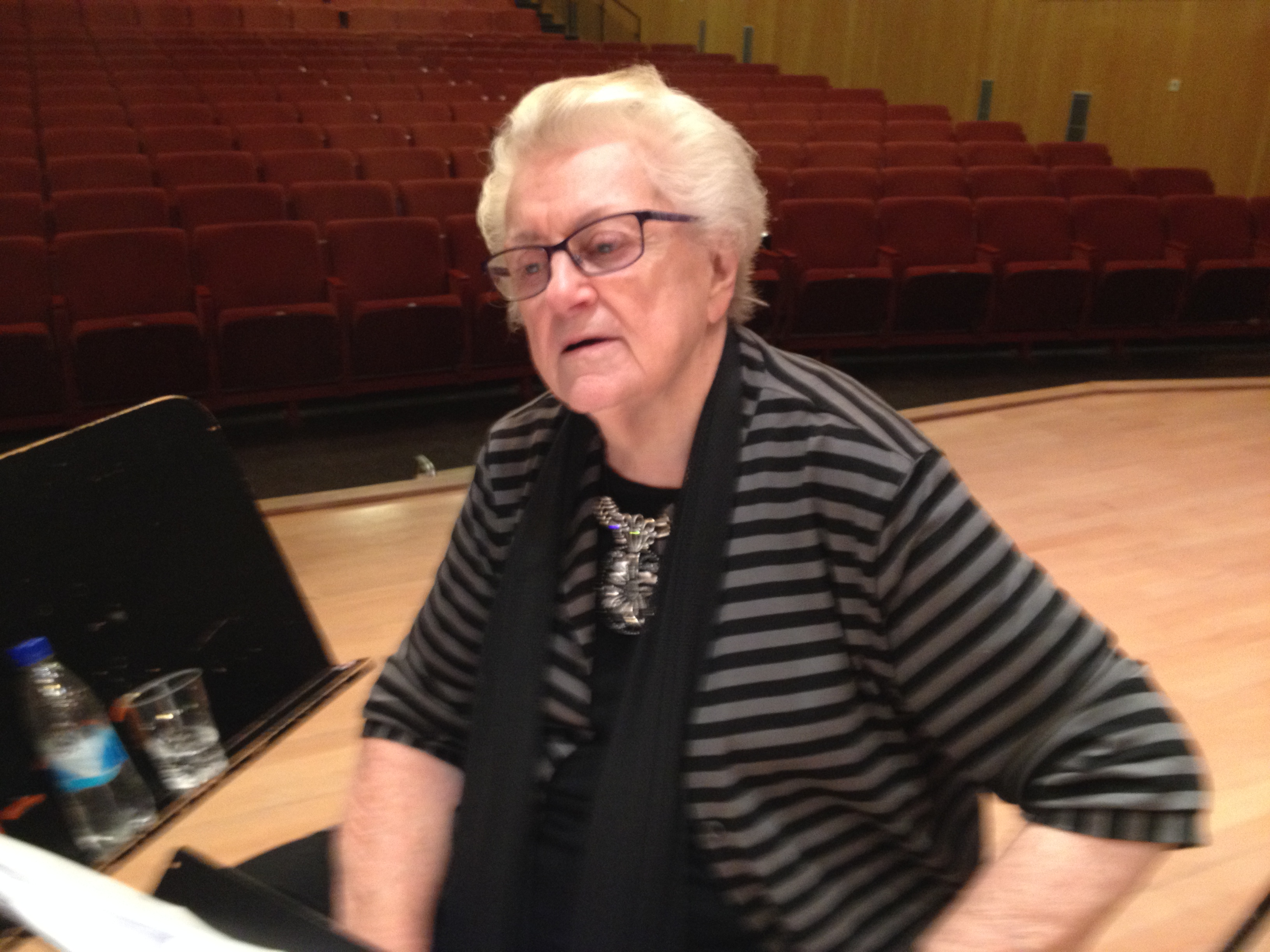 Professir Dorothy Irving teaches at a Master Class at Malmoe musikhogskola in Sweden